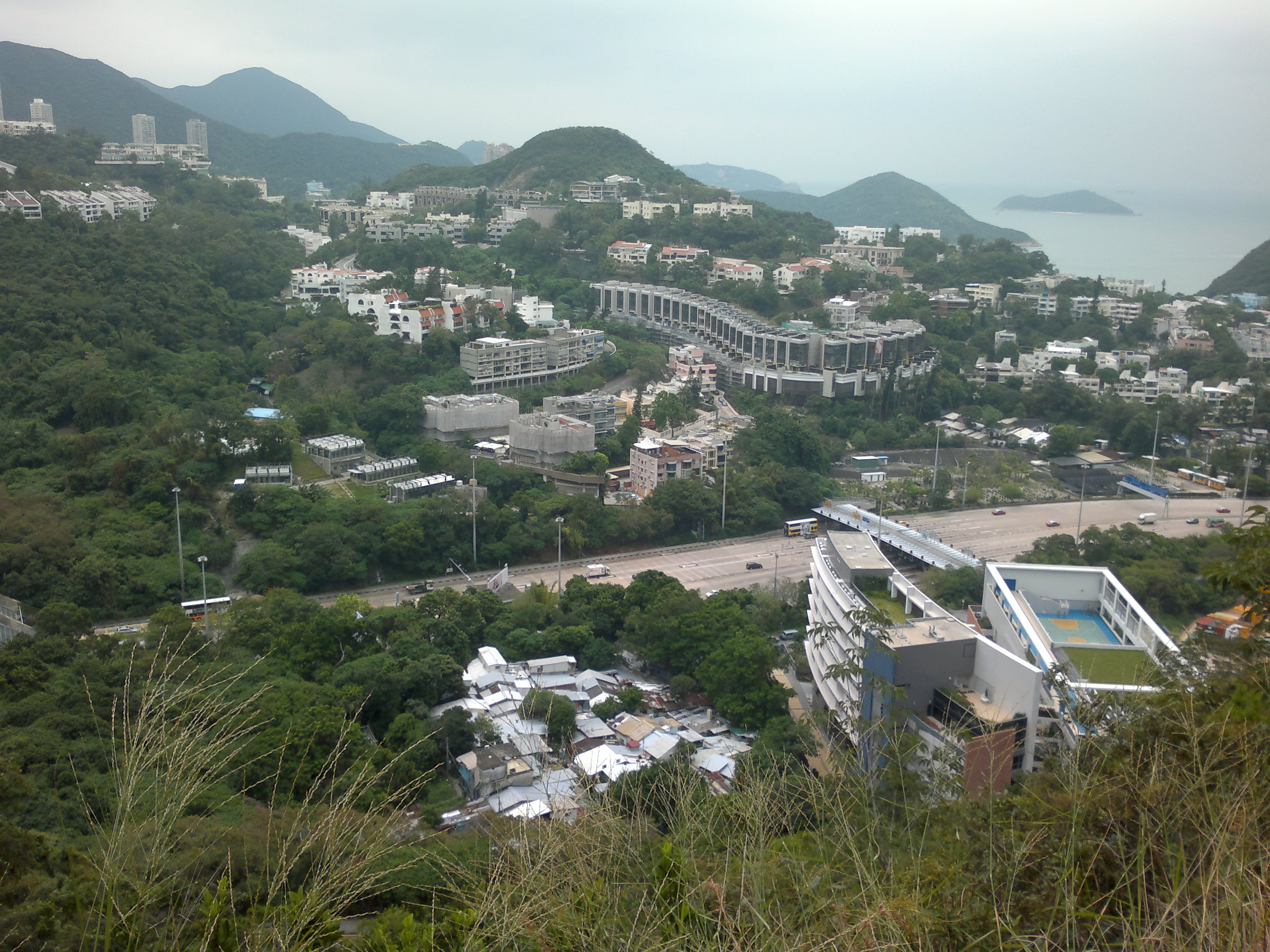 Shouson Hill and Wong Chuk Hang Old Village